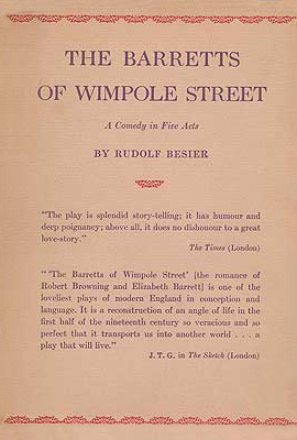 Front cover of the dust jacket of the first US edition of The Barretts of Wimpole Street, a play by Rudolf Besier